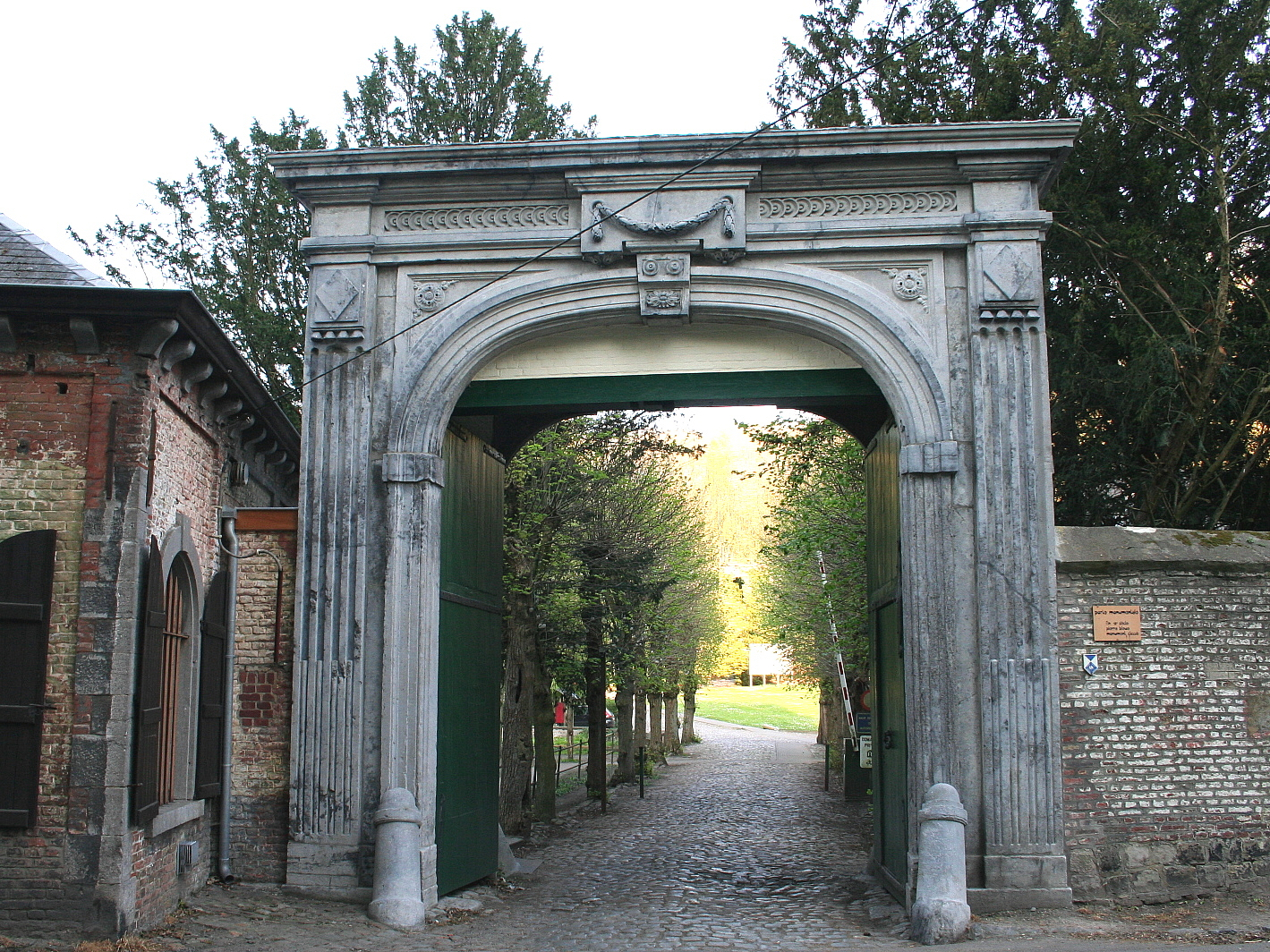 Saint-Denis (Belgium), classical porch of the Saint-Denis-en Broqueroie abbey (XIXth century).